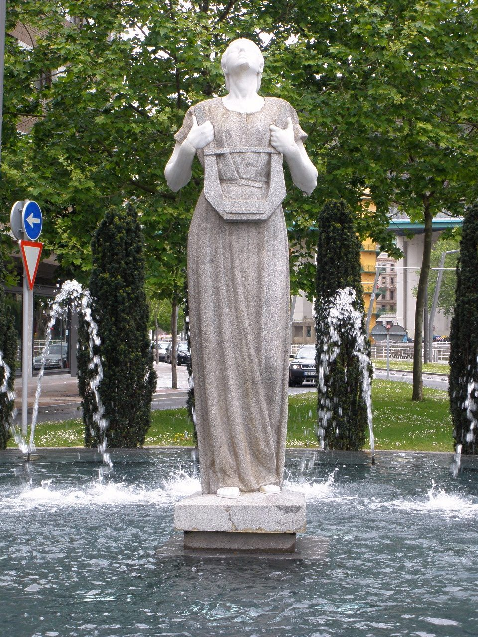 Fuente en la calle Uribitarte de Bilbao (País Vasco, España)